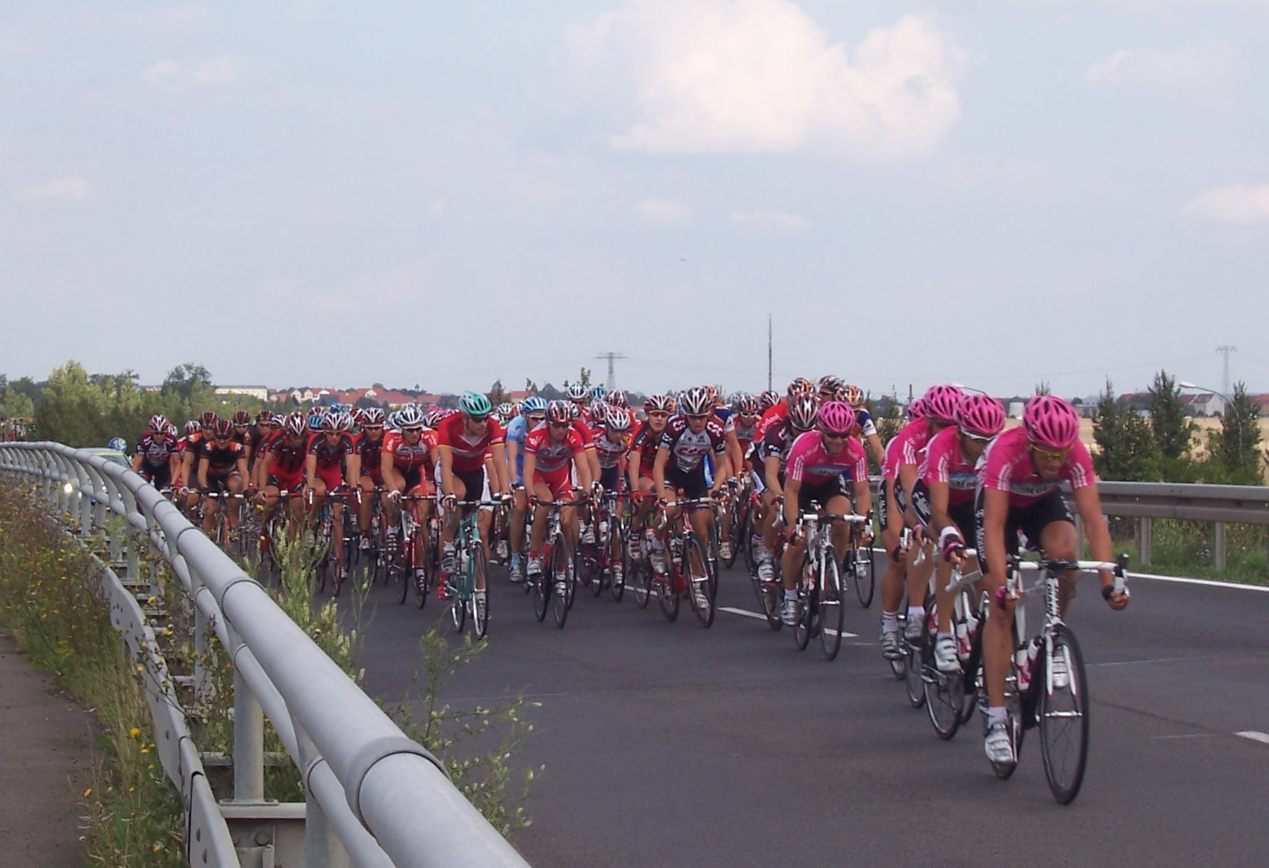 Sachsen Tour International near Eilenburg (2007)